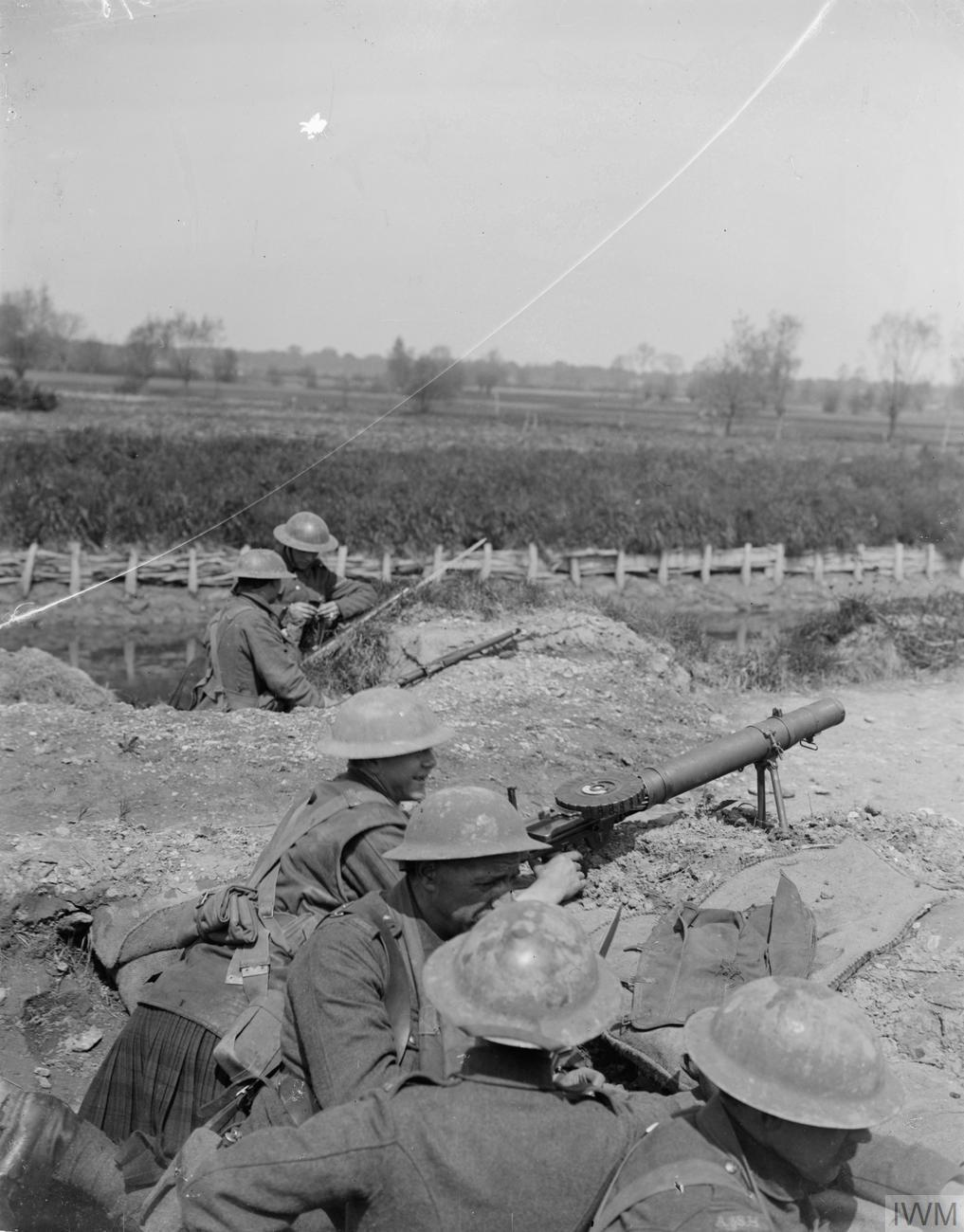 The German Spring Offensive, March-july 1918 The Battle of the Lys. Outposts manned by men of the 11th Battalion, Argyll and Sutherland Highlanders on the Lys Canal in front of Saint-Floris, 9 May 1918. Note a Lewis machine gun manned by a soldier in the foreground.